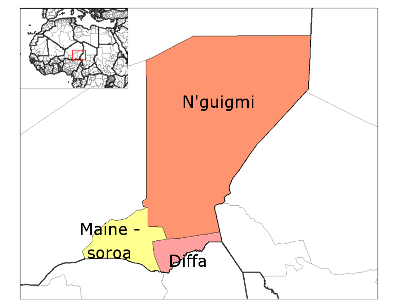 Map of Diffa